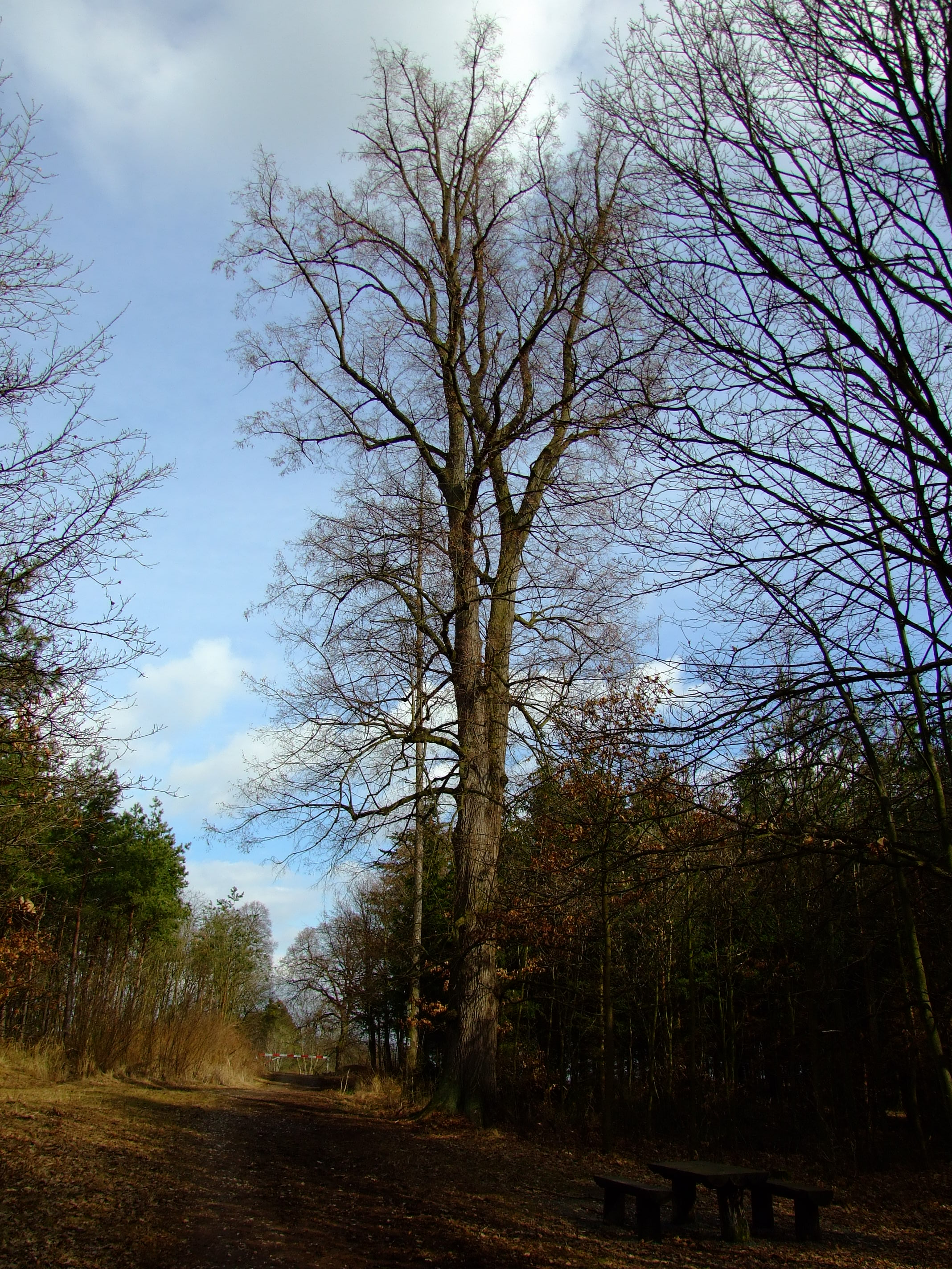 Tree near Svárov and Ptice, nature in Central Bohemian region, CZhelp